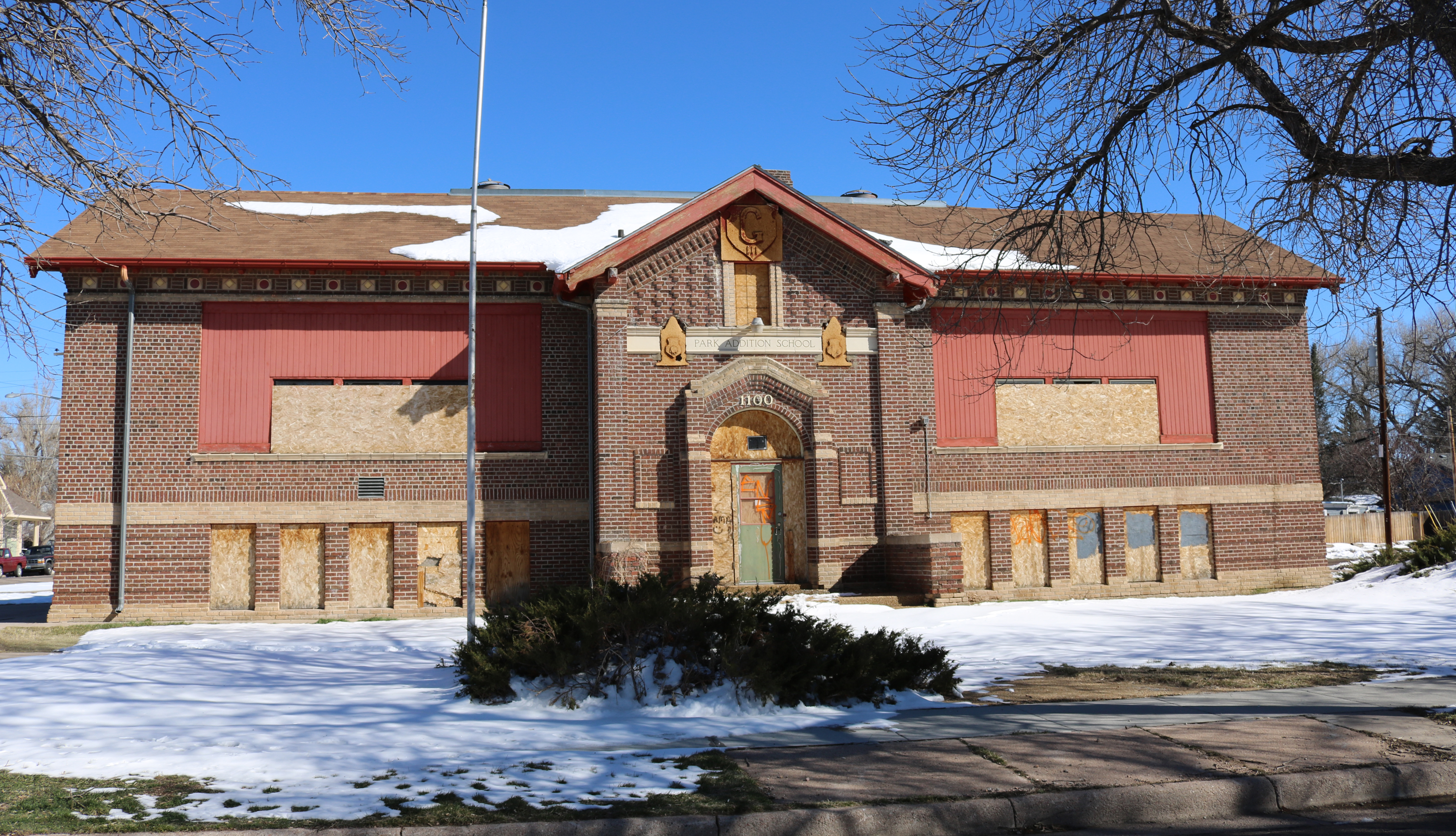 The Park Addition School, located at 1100 Richardson Court in Cheyenne, Wyoming. The property is listed on the National Register of Historic Places.